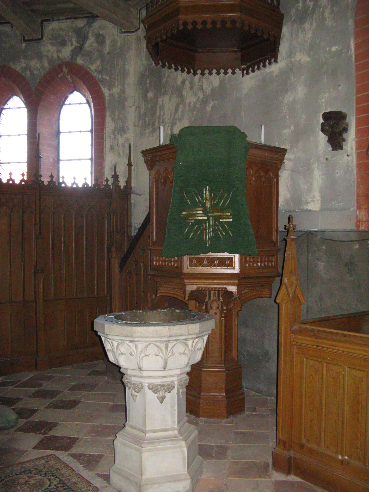 Church in Holzendorf, disctrict Parchim, Mecklenburg-Vorpommern, Germany